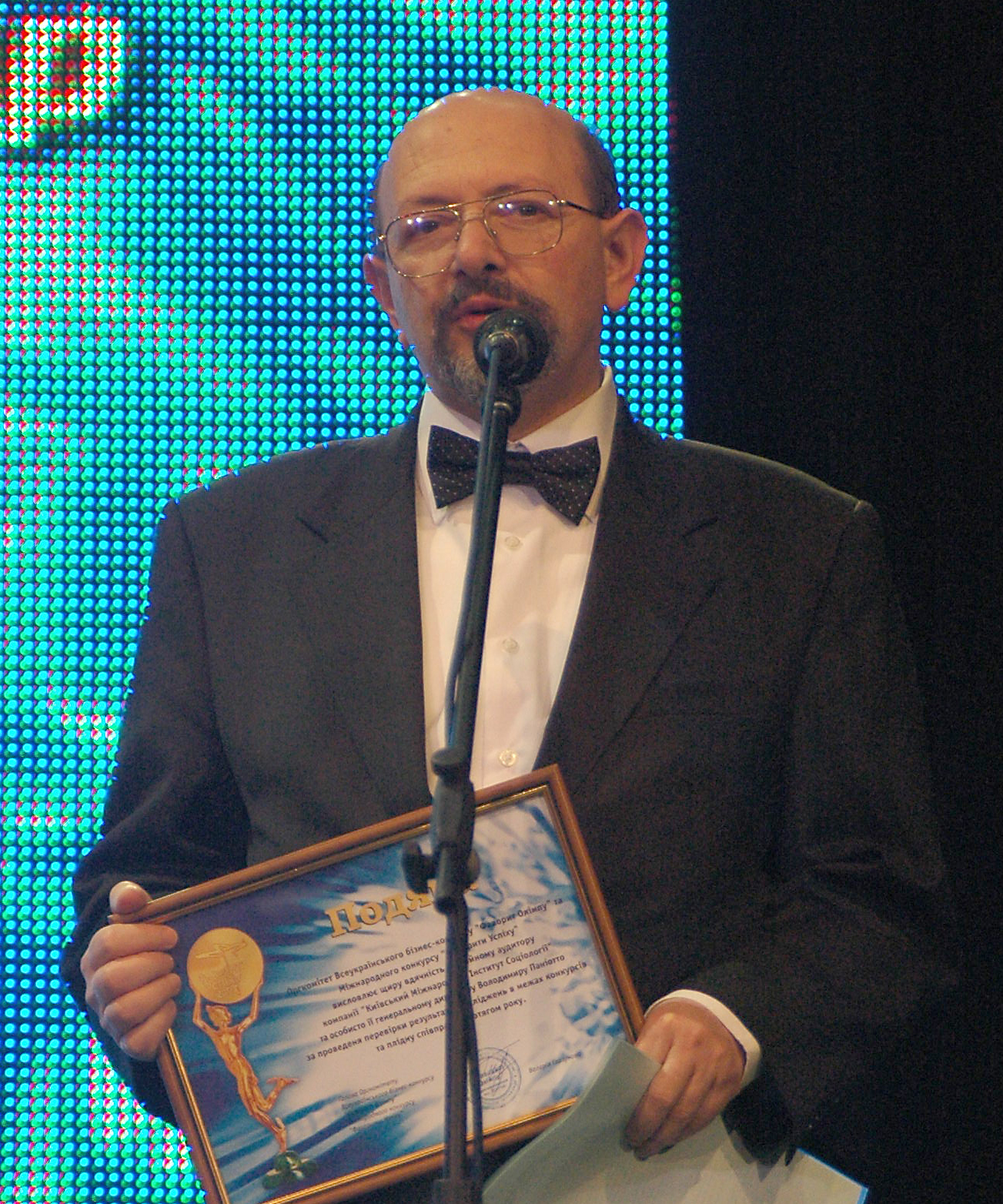 Volodymyr Paniotto on the awarding ceremony of «Favorites of Success» Award in 2005